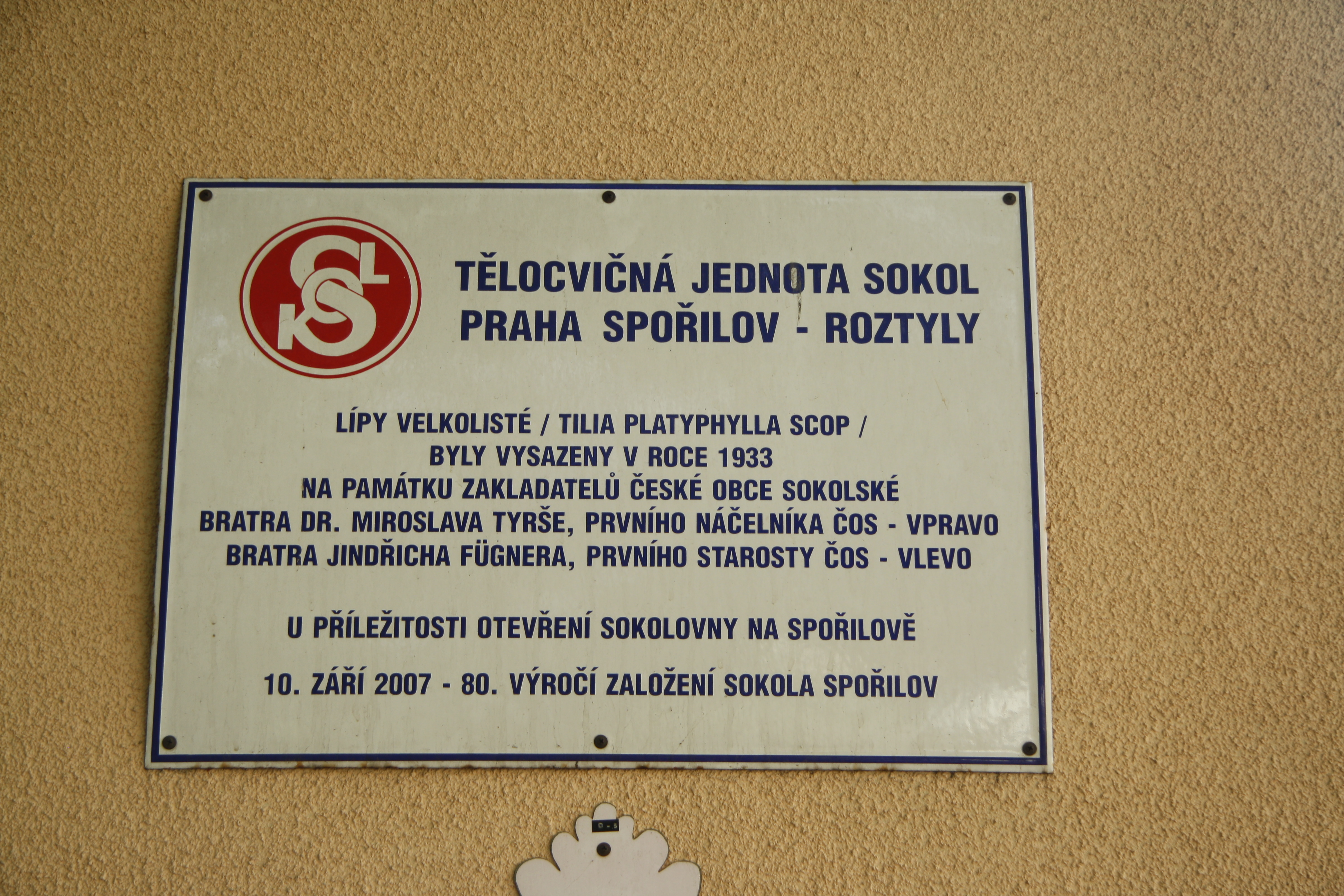 Plaque of Sokol house in Spořilov, Prague-Záběhlice, Prague.